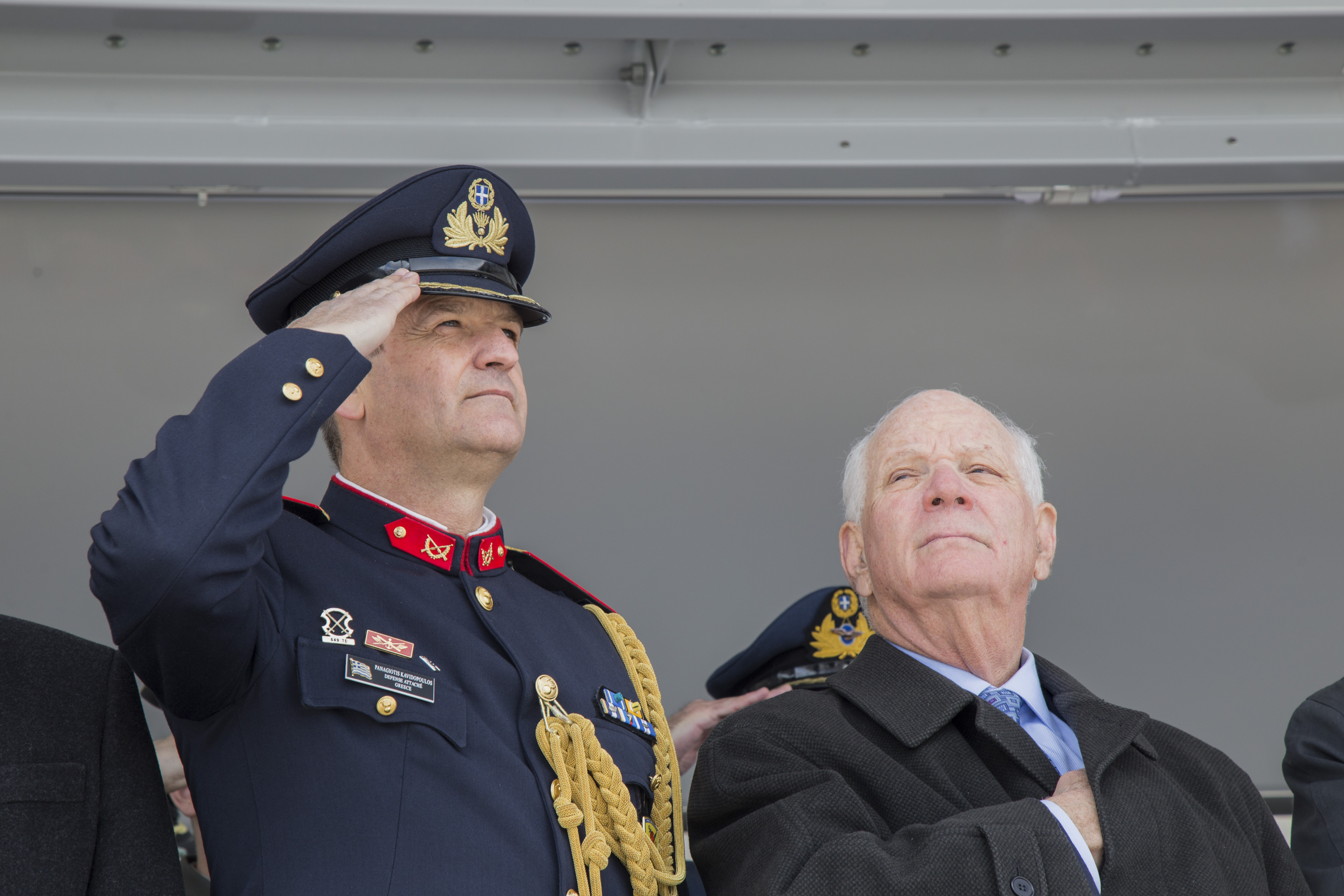 Photo by Katie Simmons-Barth 2018 Greek Independence Day Parade Baltimore